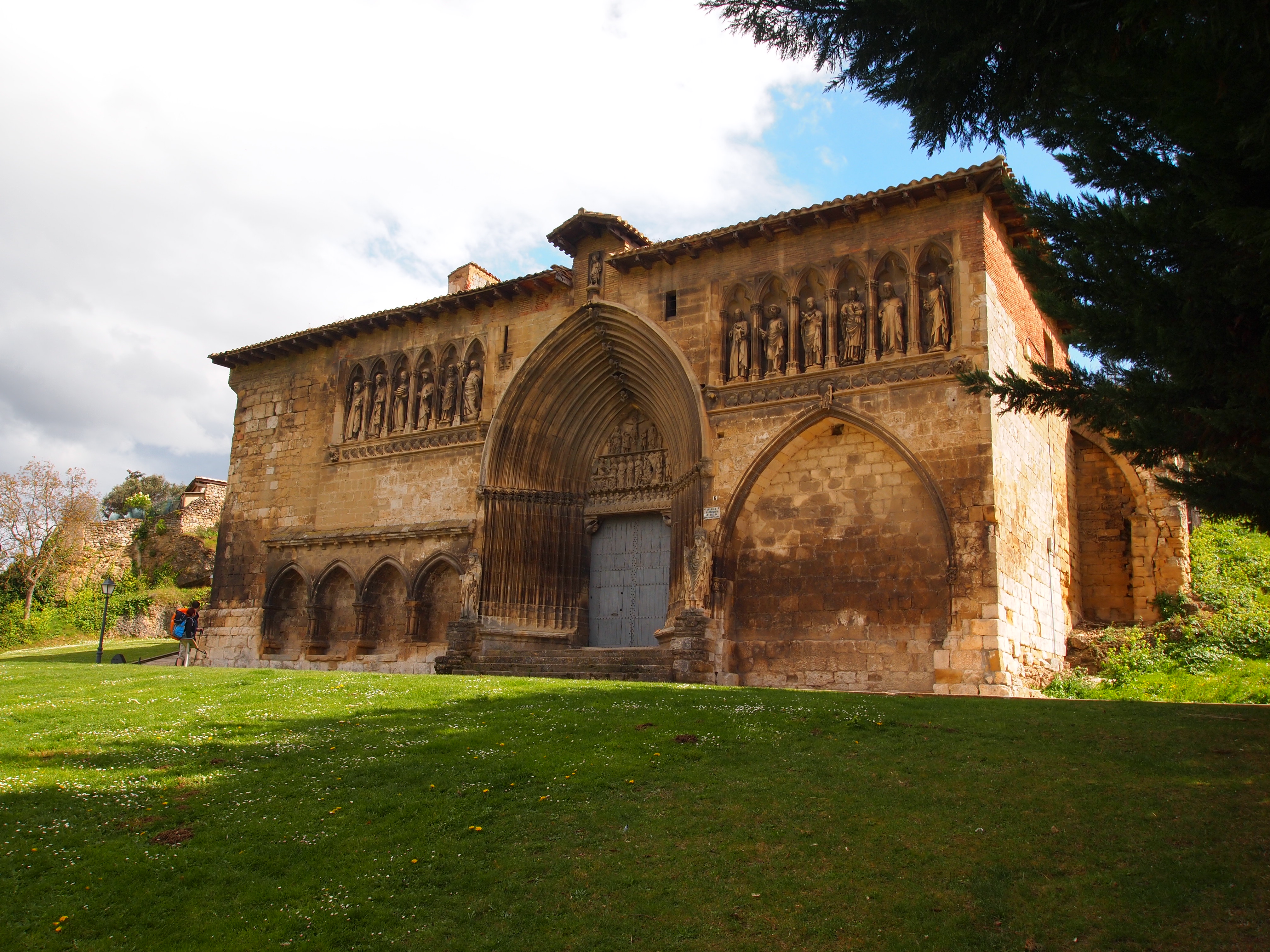 Church of the Holy Sepulchre in Estella